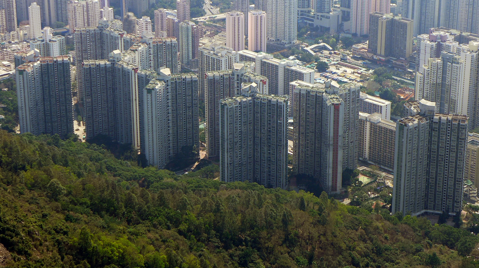 Chuk Yuen North Estate